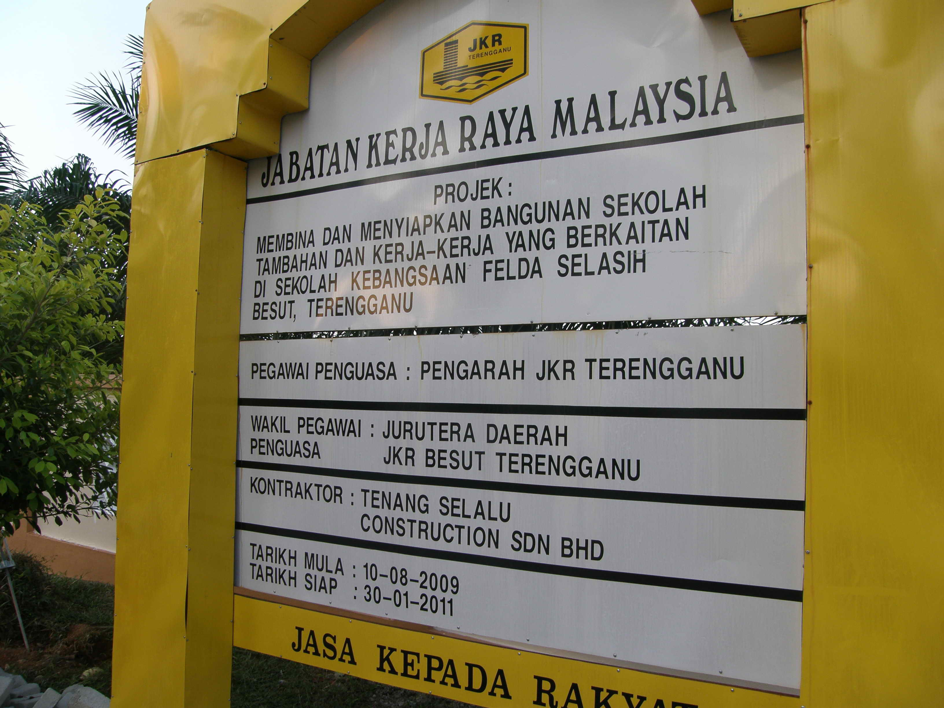 Skfs_baru